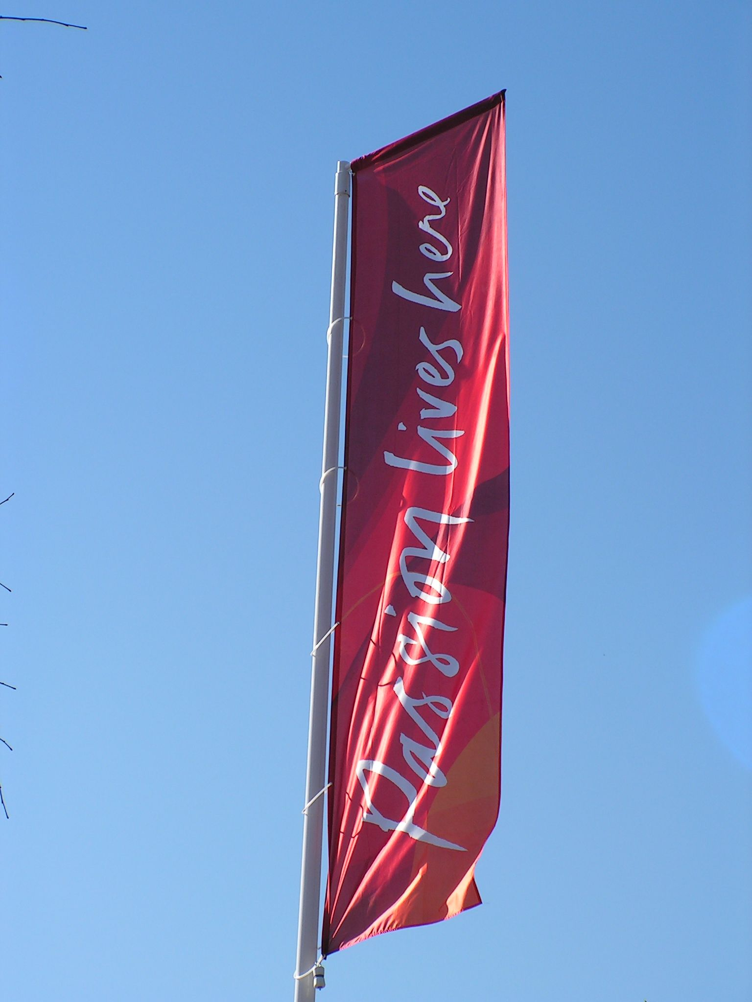 Passion Lives Here, motto of Turin 2006 Winter Olympics Author: Snowdog